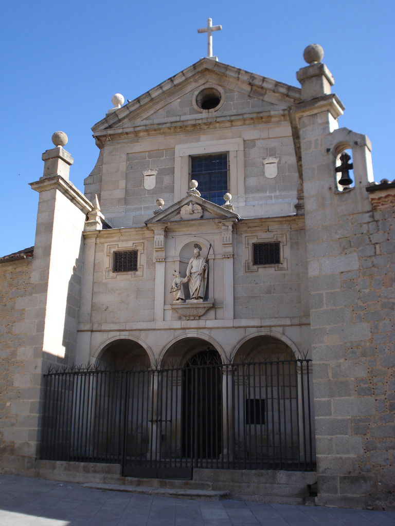 Facade of Convent of San José, in Ávila (Castile and Leon, Spain). It was built in 1607 by Francisco de Mora.